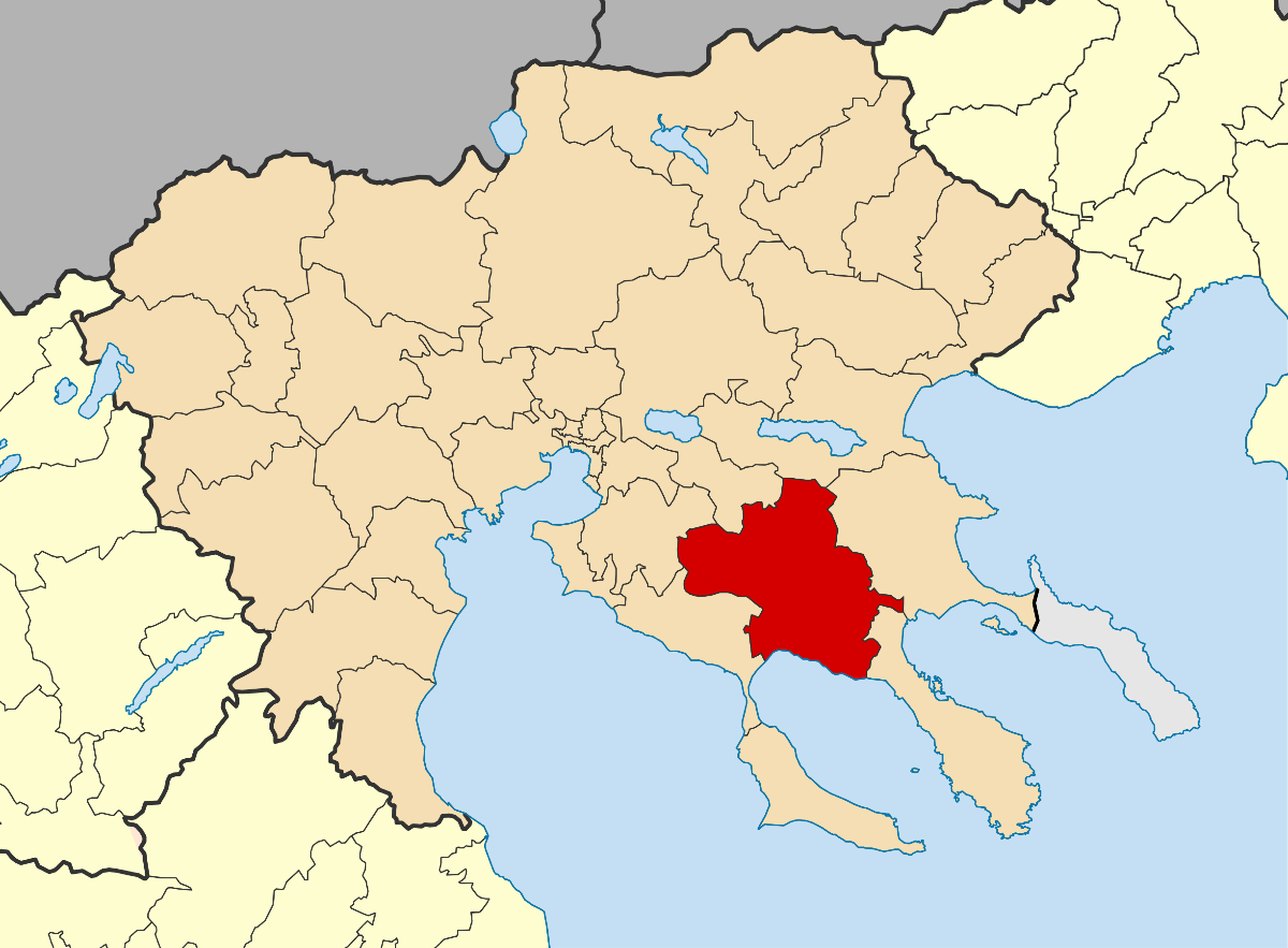 Locator map for Polygyros municipality in Greek region Central Macedonia (2011)